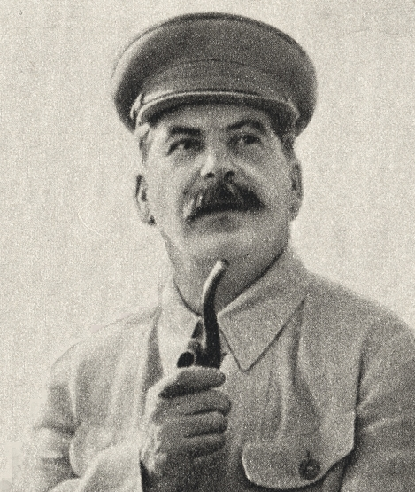 Image of Joseph Stalin from 1937